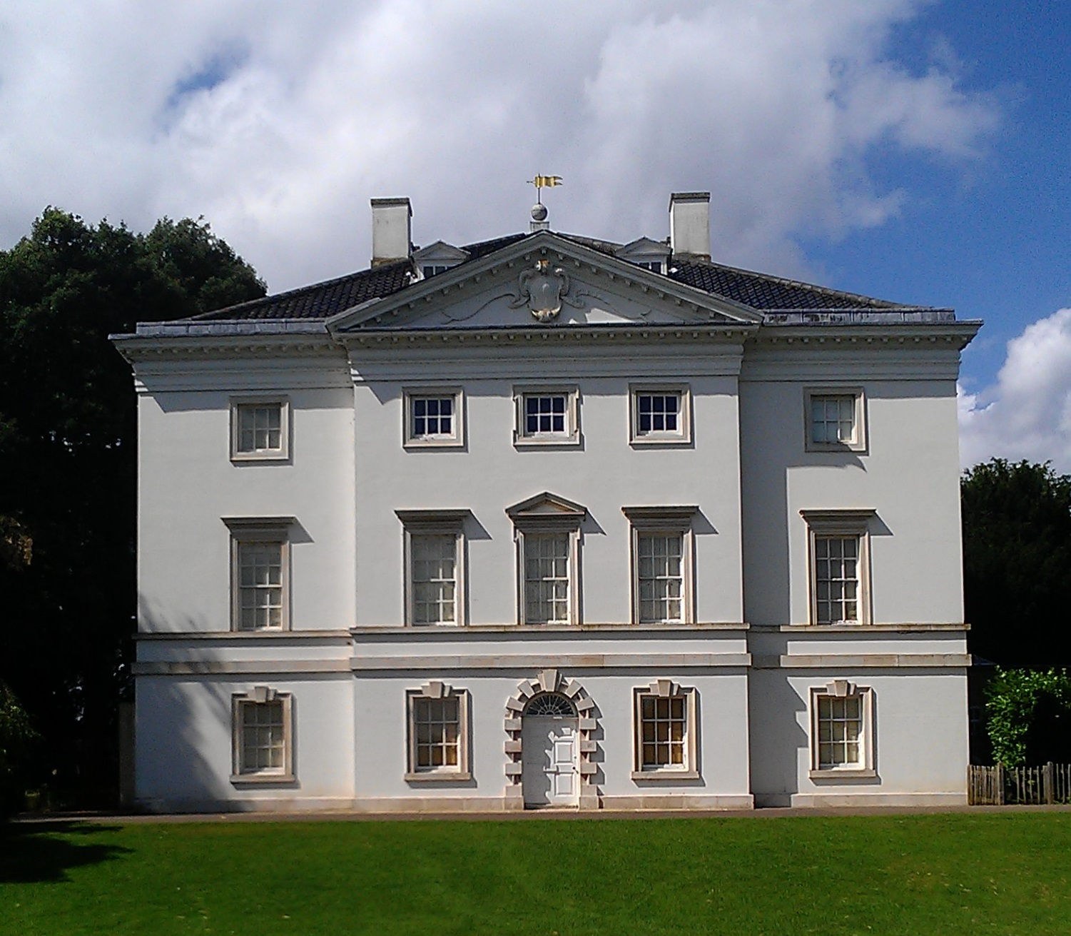 The southern side of Marble Hill House in Richmond, West London.